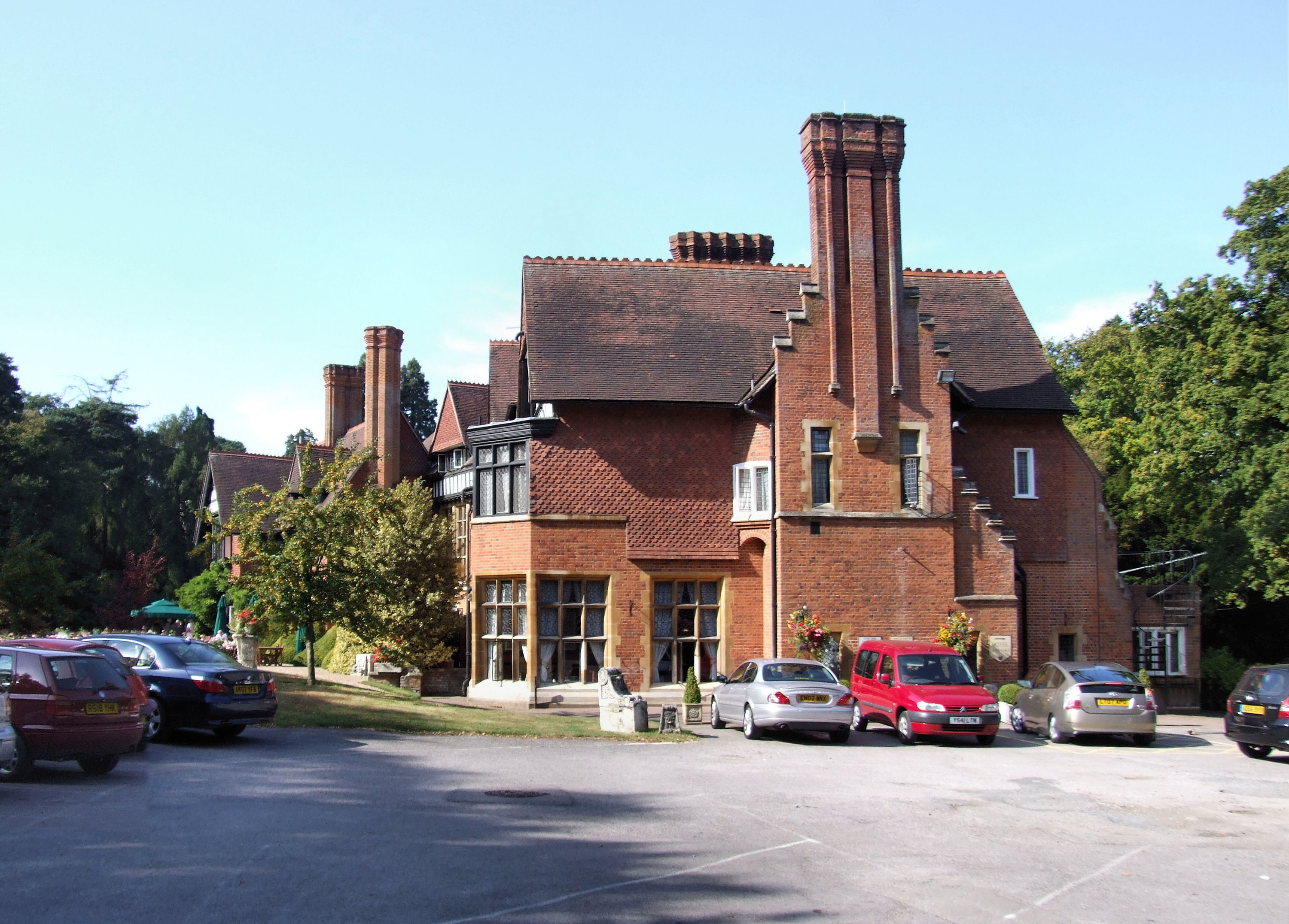 A large house in Old Redding north of Harrow Weald, Middlesex, England. Designed by Norman Shaw for the painter Frederick Goodall. From 1890 until his death in 1911 it was owned by W. S. Gilbert, librettist to composer Arthur Sullivan of 14 comic operas between 1871 and 1896. Now a hotel.